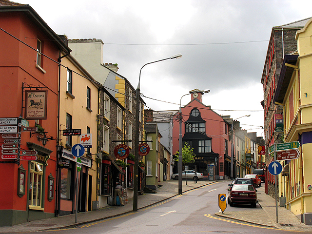 Killorglin Main Street. This is the southern leg of the N70 at Killorglin, viewed from the southern end of the bridge over the River Laune.